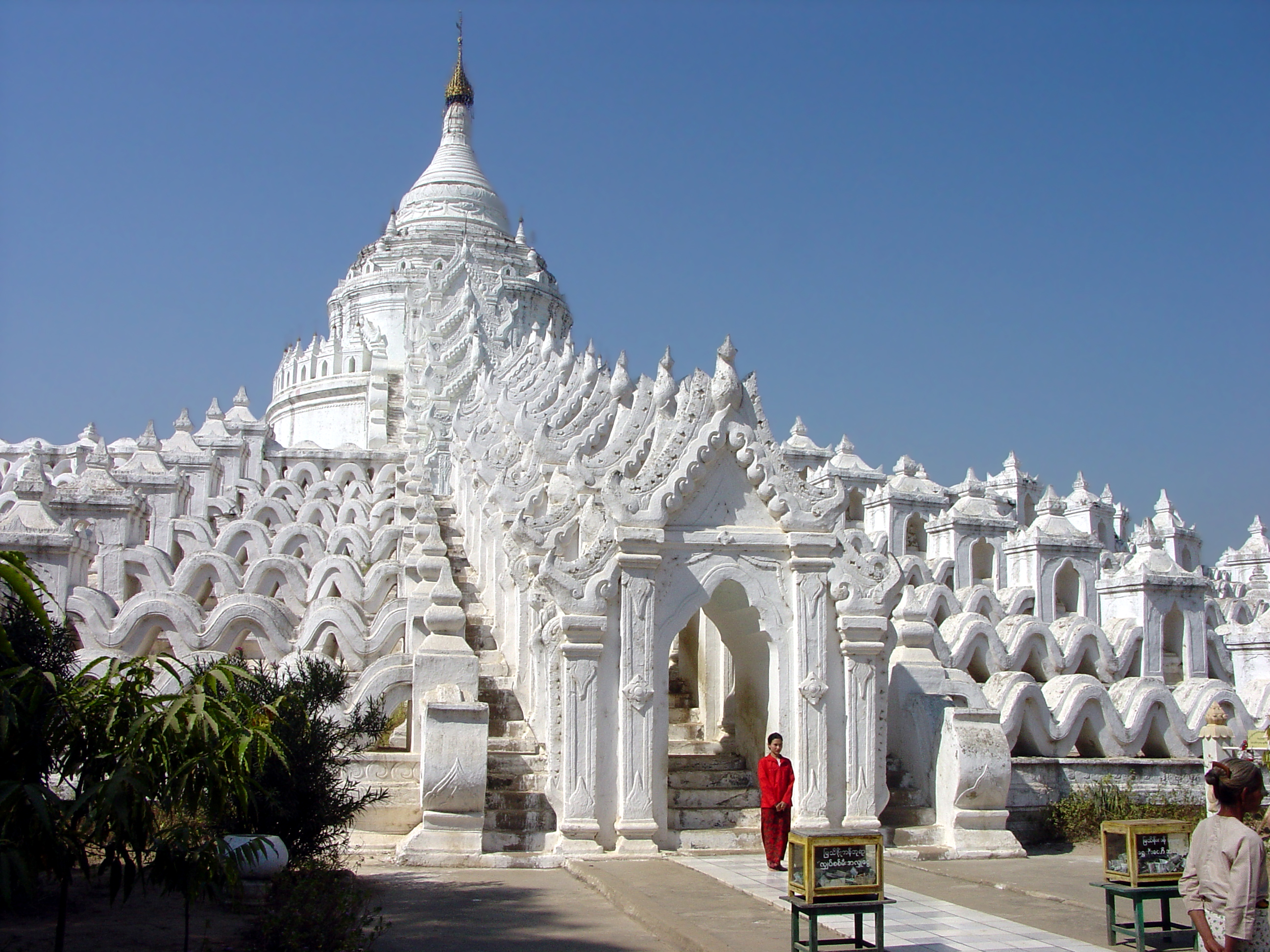 This magnificent stupa was built by King Bagyidaw (the successor of Bodawpaya) as a representation of Mount Meru, home of the gods, with its seven mountain ranges located on an island in the middle of the water. Here, the water is depicted literally, with small Buddha statues enshrined amidst the "waves." The stupa was damaged by earthquake in 1838, and restored in 1874.